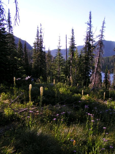 A view along a trail in the northern half of the Mission Mountains north of Rainbow Lake.